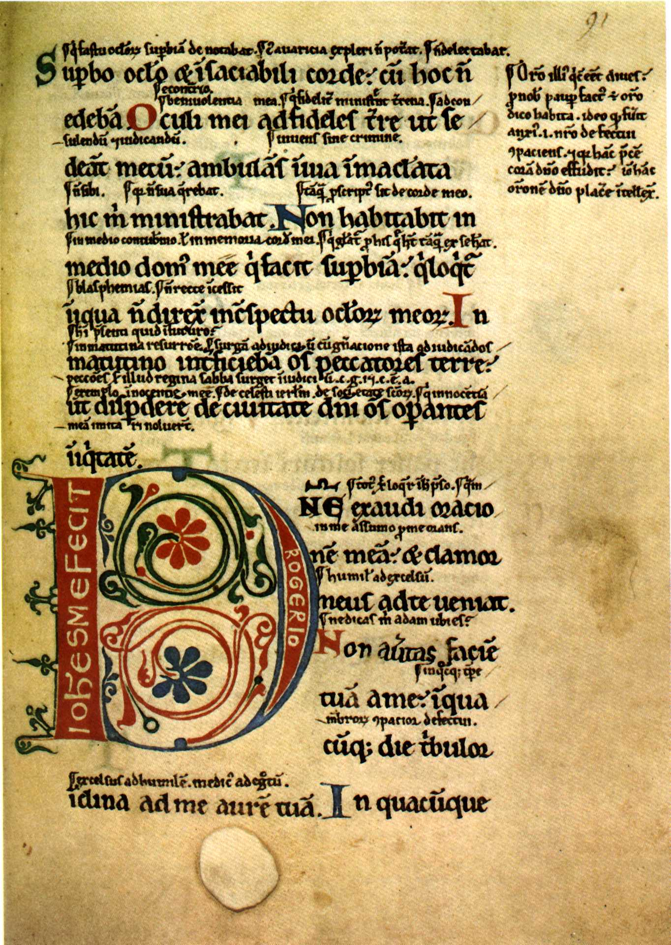 Folio 911 recto from a Psalter.